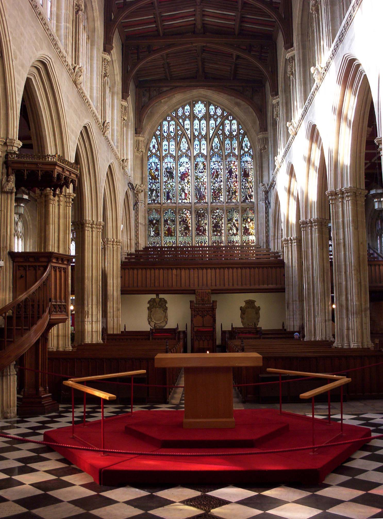 Photograph of the of the Nave of the University Church of St Mary Virgin, Oxford, as viewed from the chancel looking W. Photo by me.--Alf melmac 14:20, 7 February 2007 (UTC)